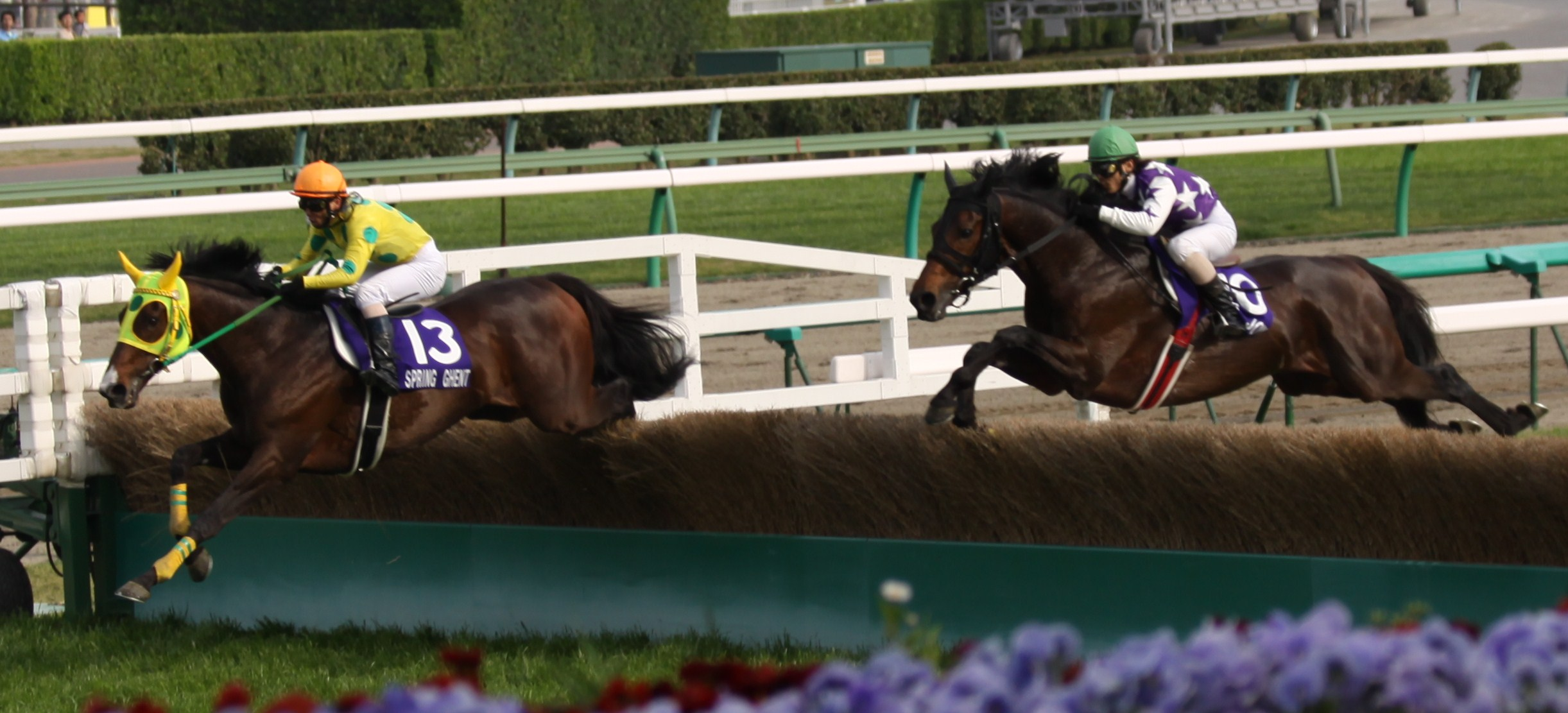 Spring Ghent&King Joy(horse)